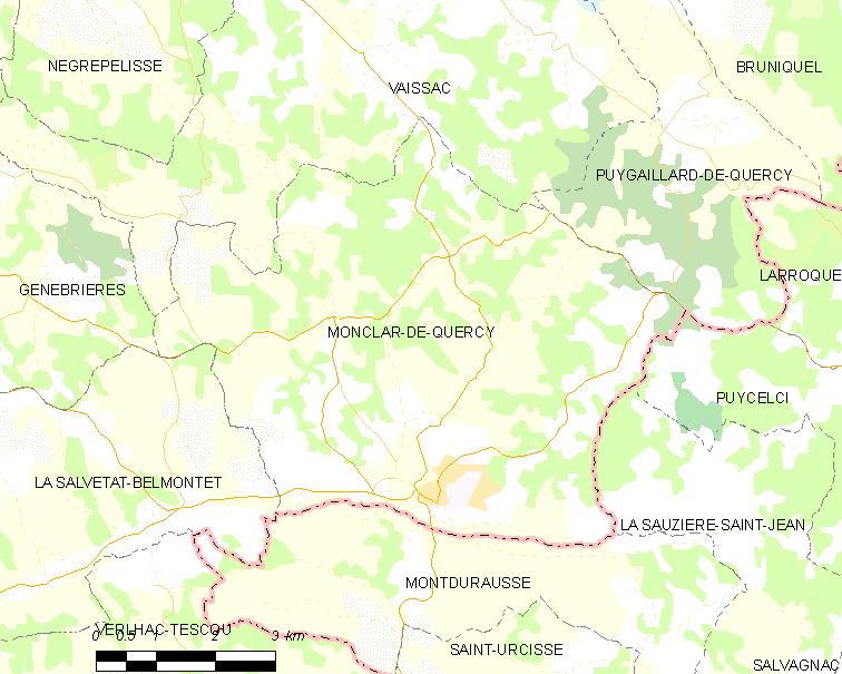 Map of French municipality Monclar-de-Quercy